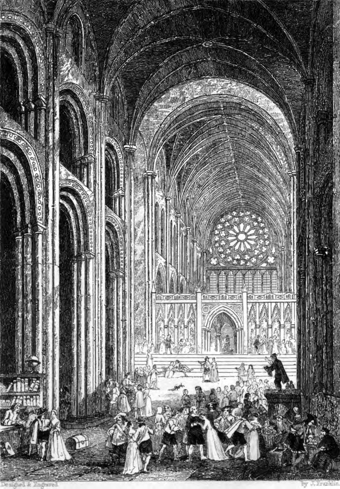 John Franklin's illustration of Paul's Walk for William Harrison Ainsworth's novel, Old St. Paul's, published London : Chapman & Hall, 1841.